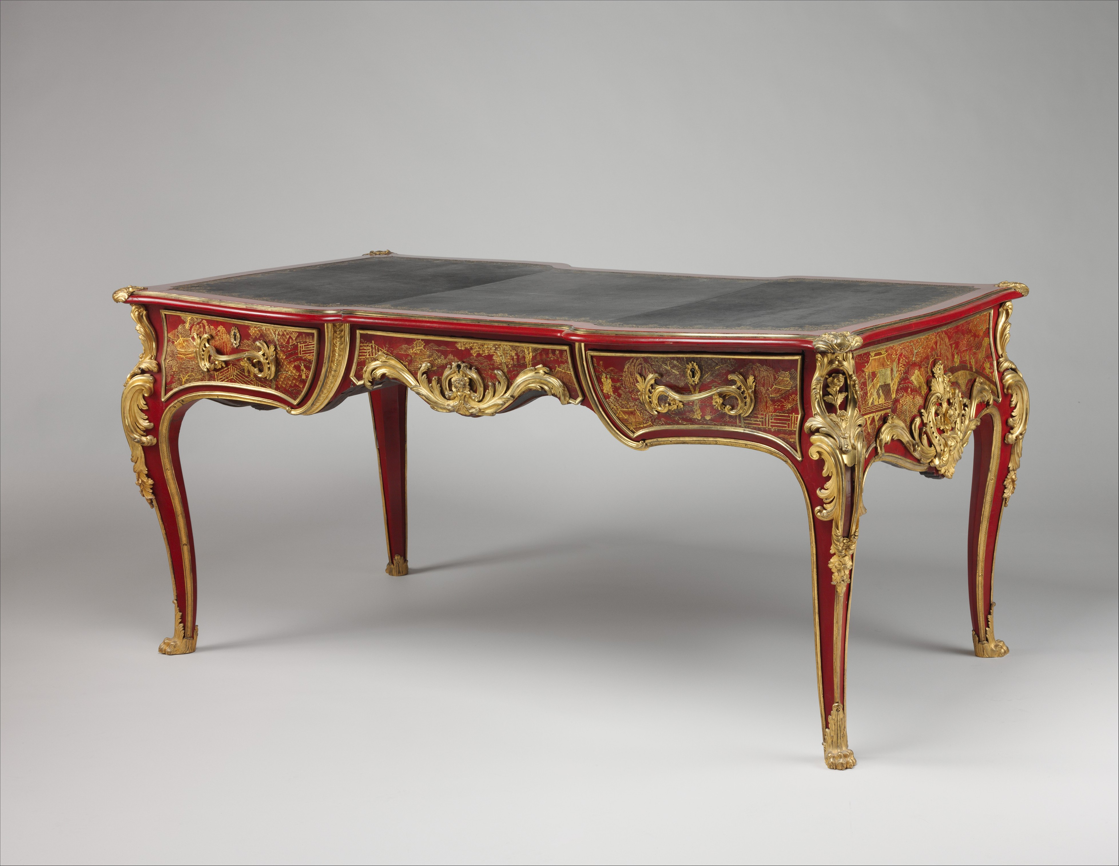 French, Paris; Writing table; Woodwork-Furniture